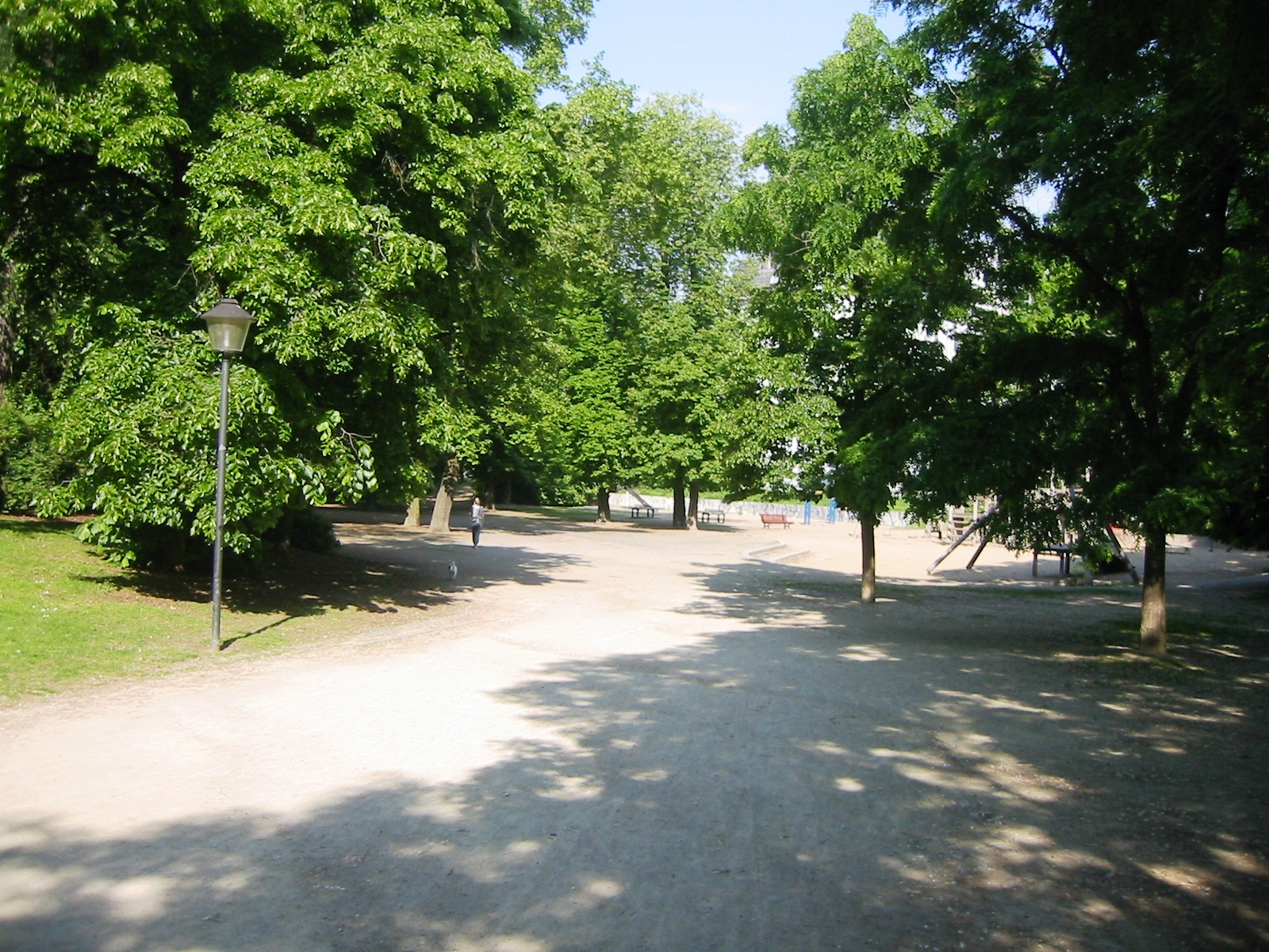 Berlin-Schöneberg Heinrich-Lassen-Park